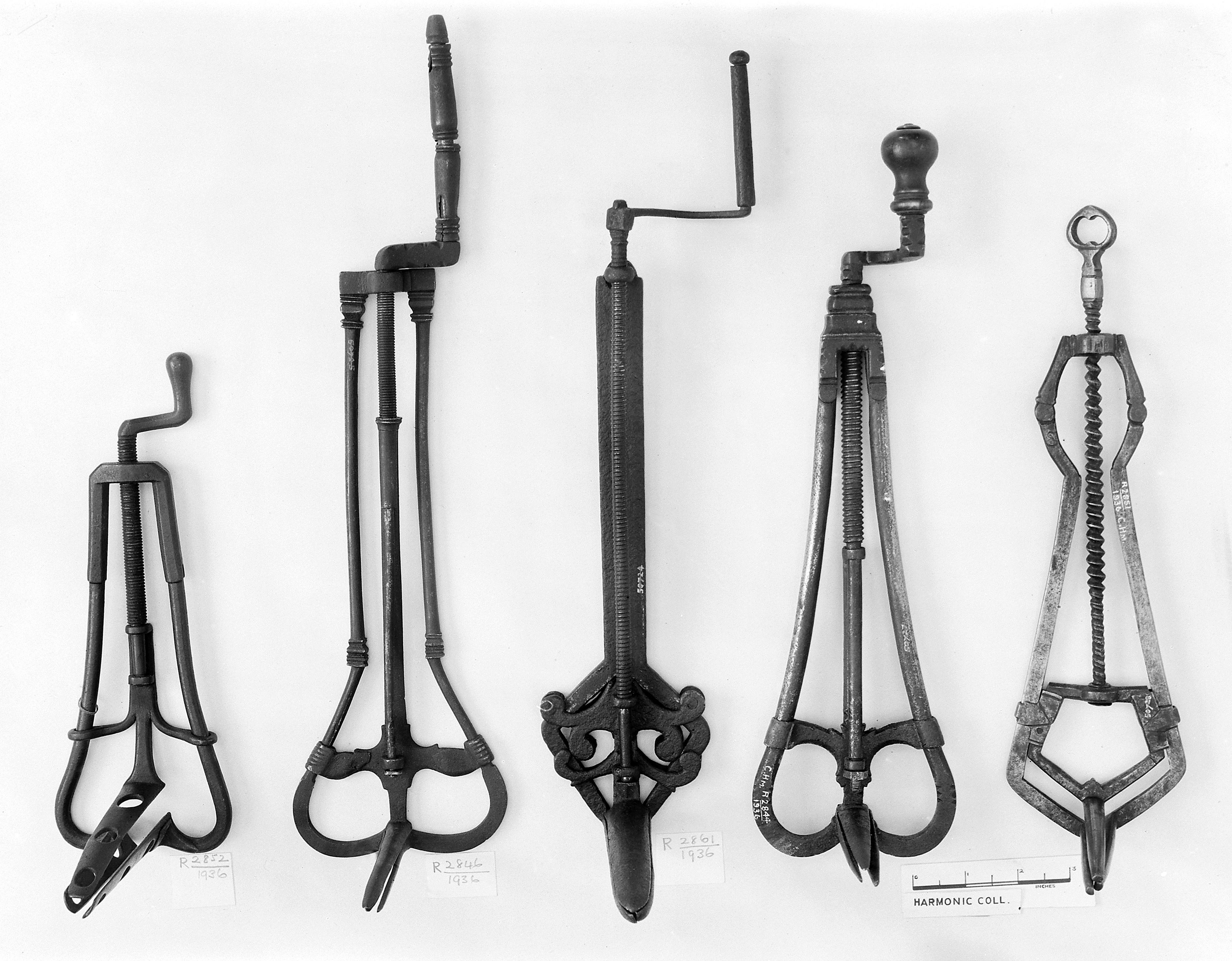 5 Speculum, Harmonic collection. Wellcome Images Keywords: Surgical Instruments